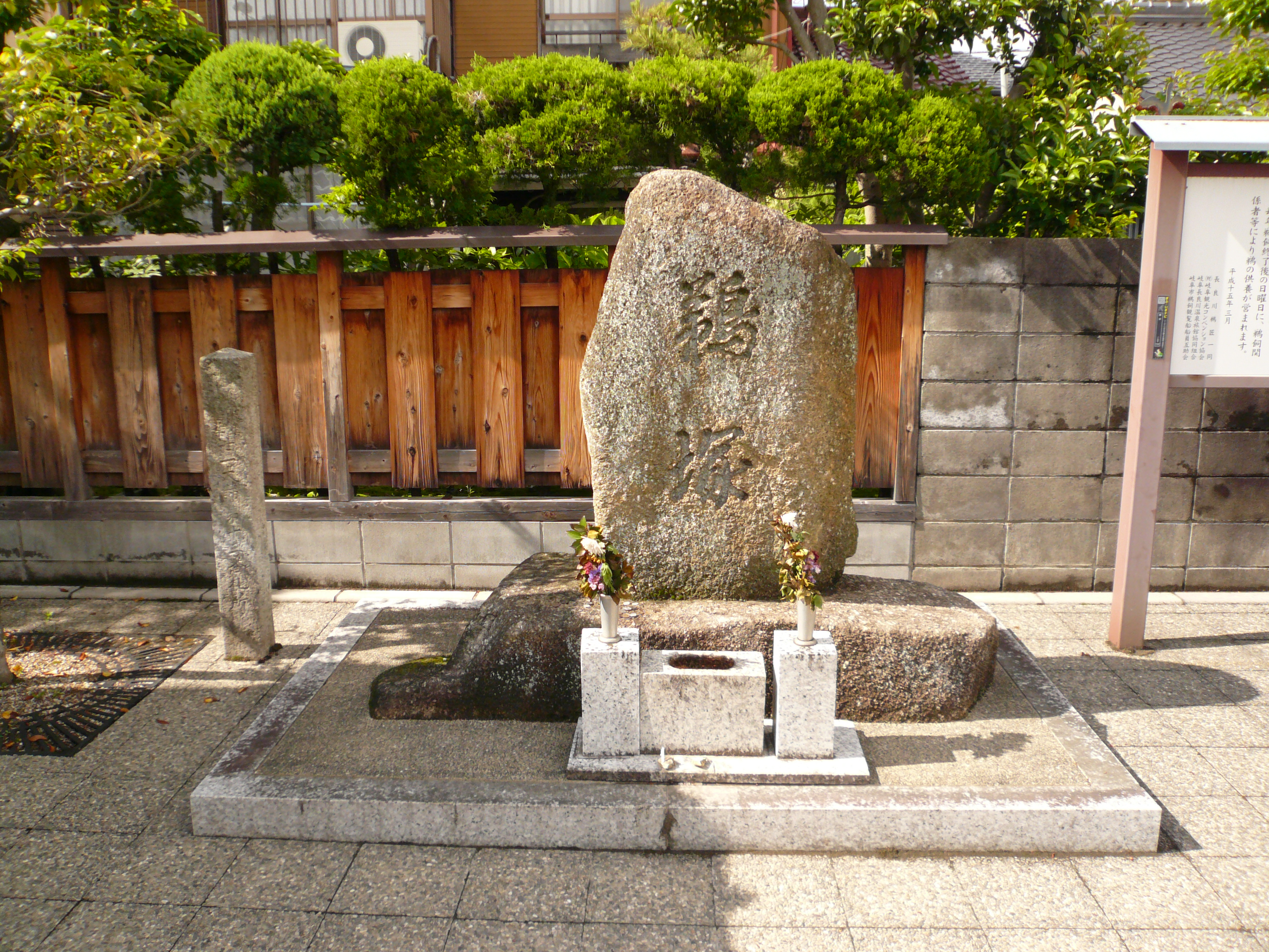 Uzuka, Gifu, Gifu, Japan